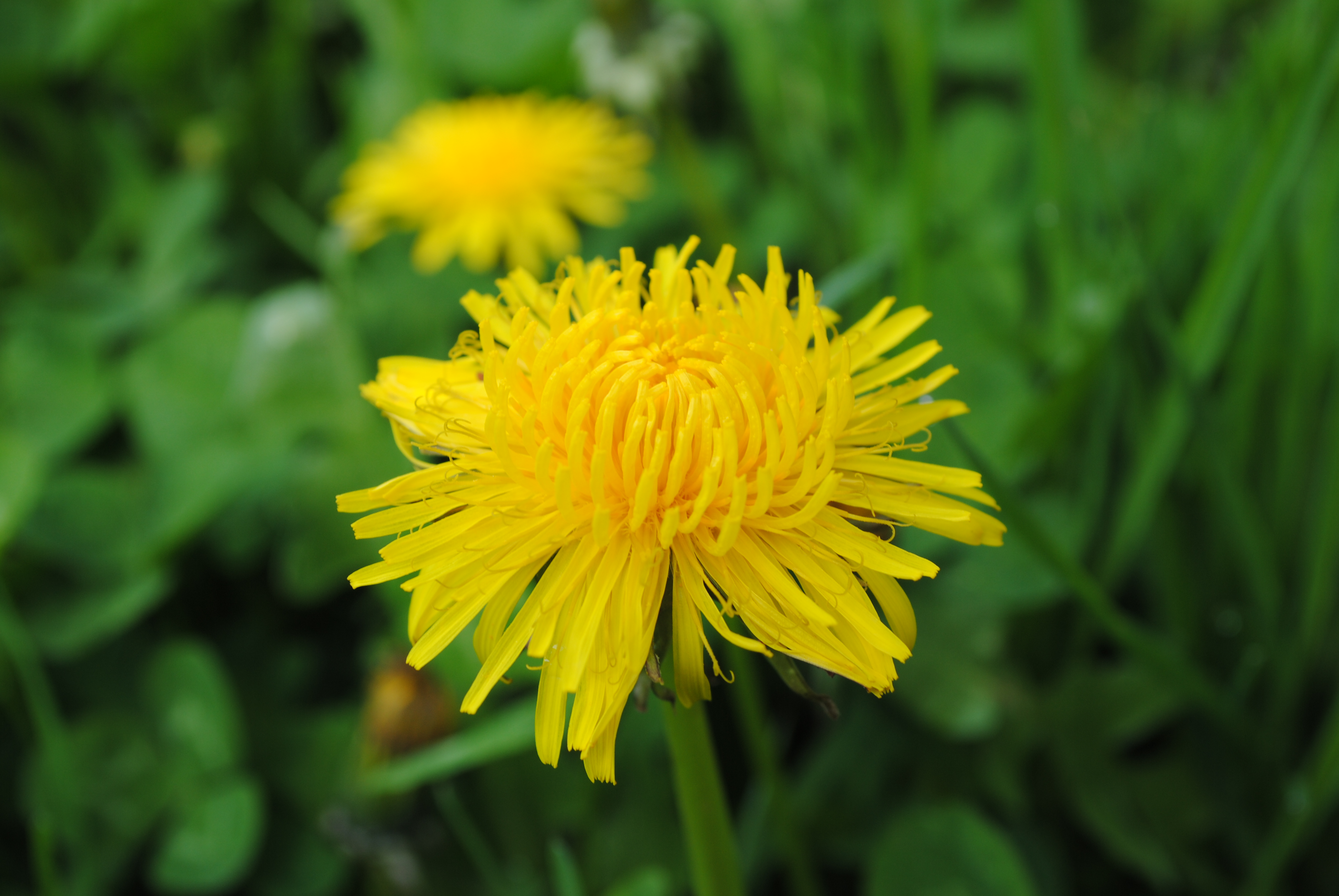 Dandelion Macro (Taraxacum)